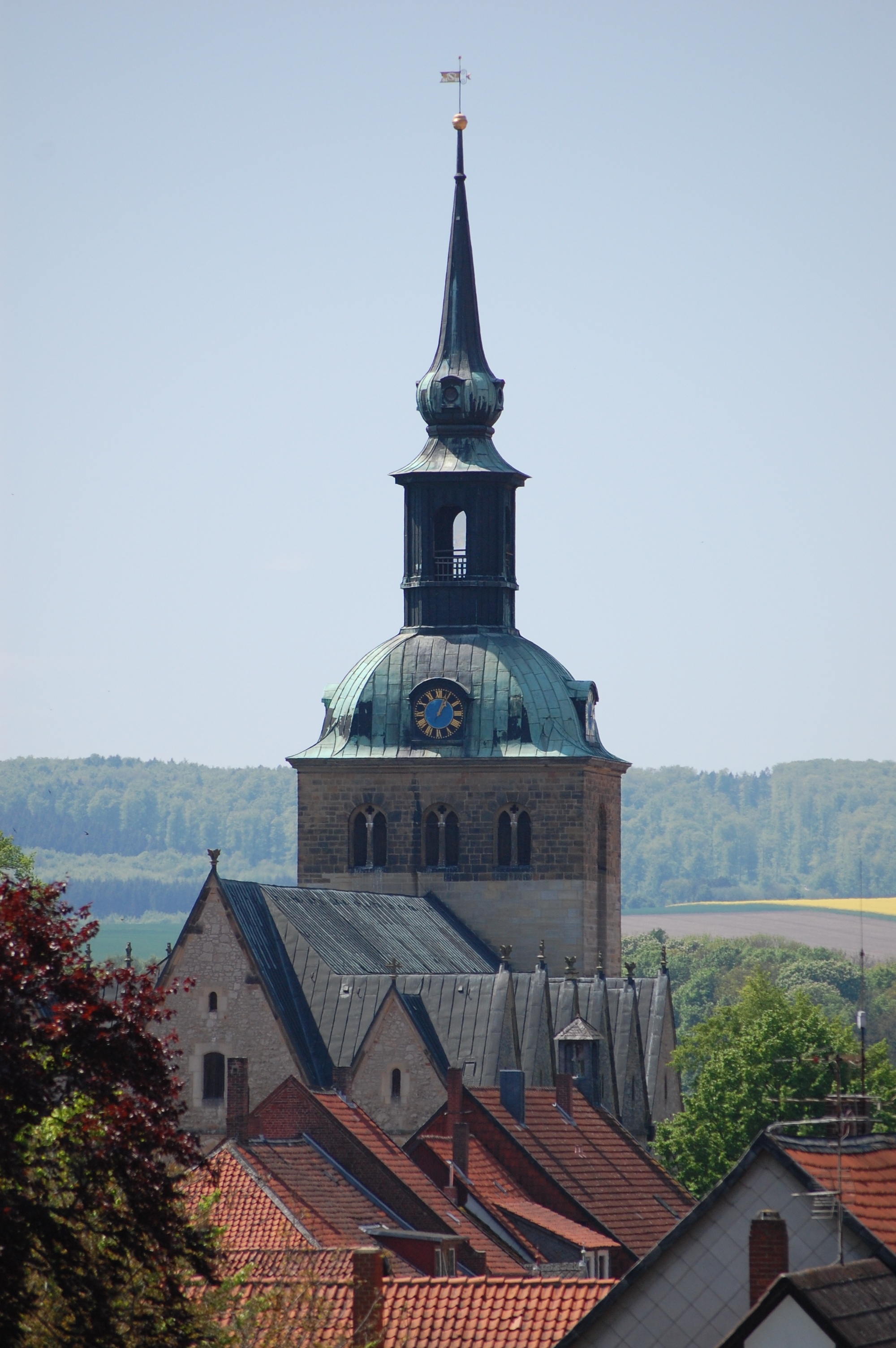 View of St. Pankratius Church from primary school staff room.